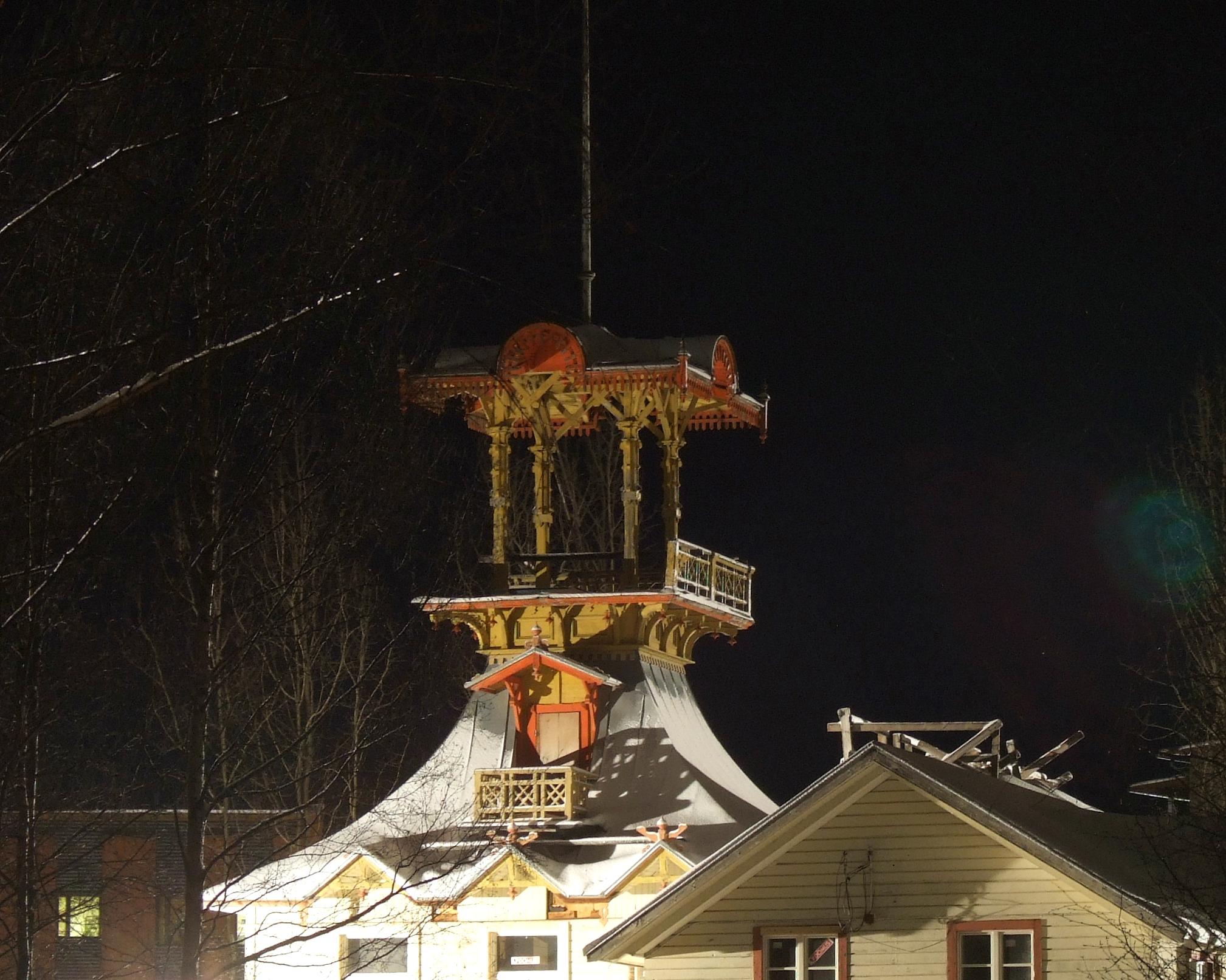 The Villa Hannala in Toppilansaari, Oulu, Finland. The villa has been under a threat of demolition, but it was renovated in 2004–2007 by the adult educational centre of Oulu Polytechnic. The villa has been built 1859 for the Snellman family. Weather: −2 °C.